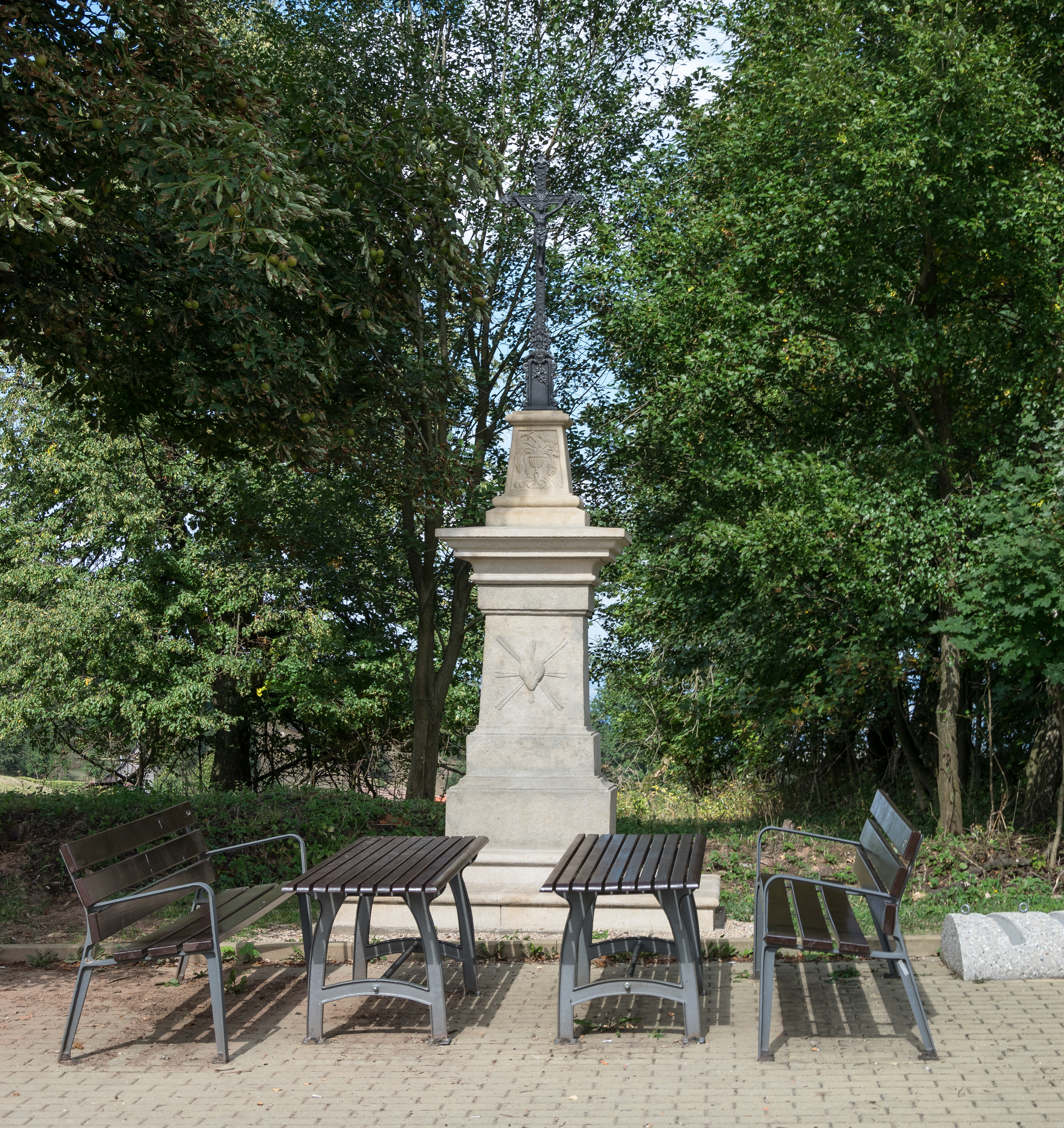 Kamieńczyk-Mladkov Petrovičky border crossing